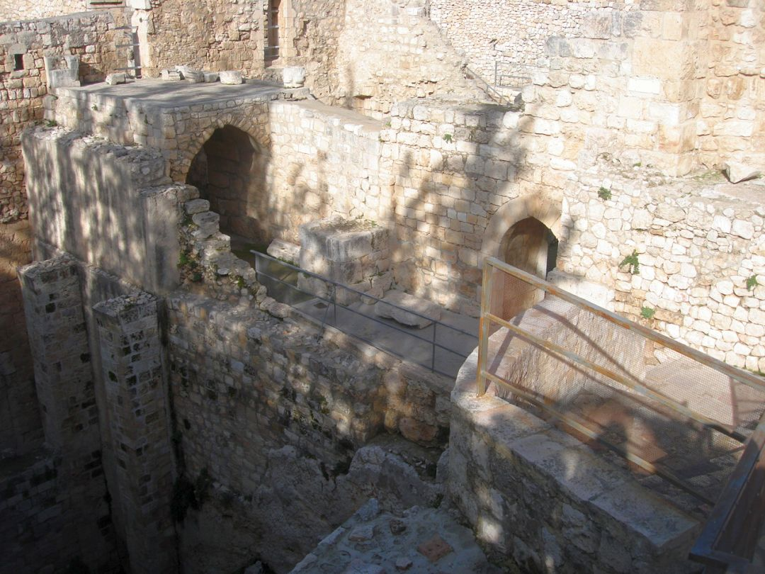 transition 1 - Pool of Bethesda